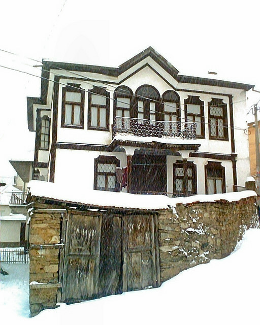 Traditional architecture in Krusevo